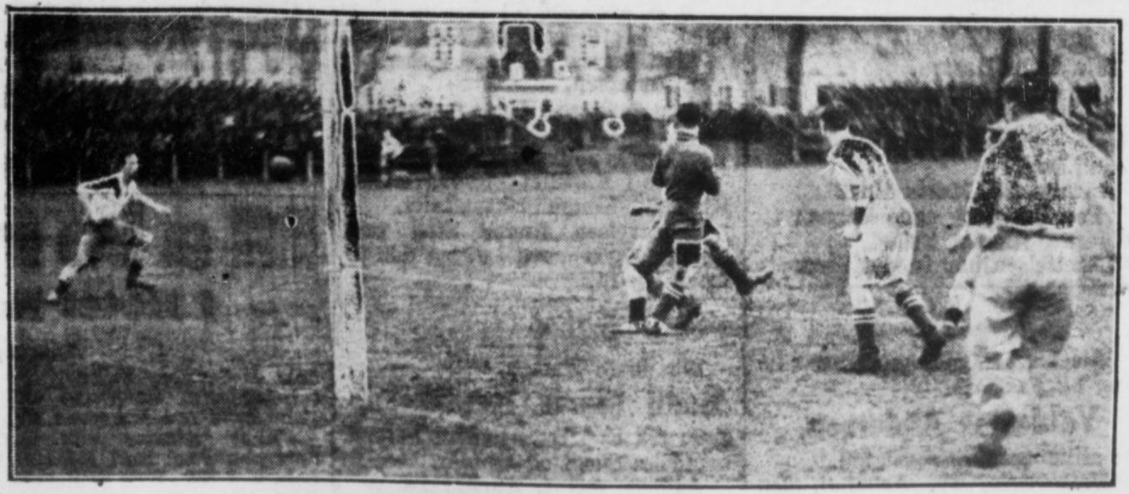 Match action photo from an association football match in the 1927–28 Danmarksmesterskabsturneringen - The Danish league match was played on 1 April 1928 at Aarhus Stadion, Aarhus, between Aarhus Gymnastikforening (AGF) and Akademisk Boldklub (AB) and ended in a 2-0 home win til AGF. The photo shows the situation regarding AGF's first goal, where the goal scorer, Rasmus Gundlev (AGF), is shown at the left, with AB's goalkeeper, and the AB-defender, Palle Christensen behind him.